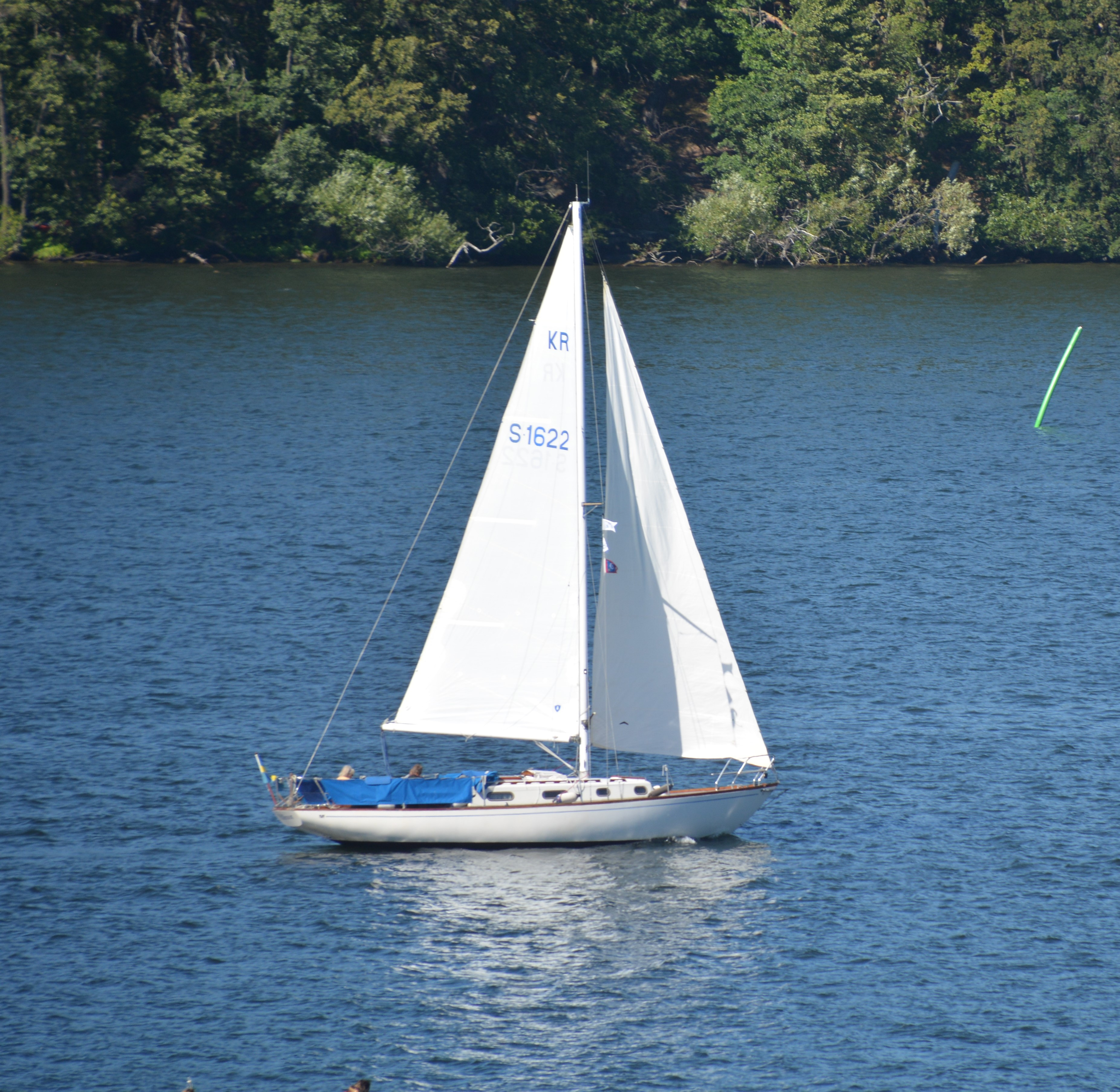 Schelinkryssare, Swedish yacht type